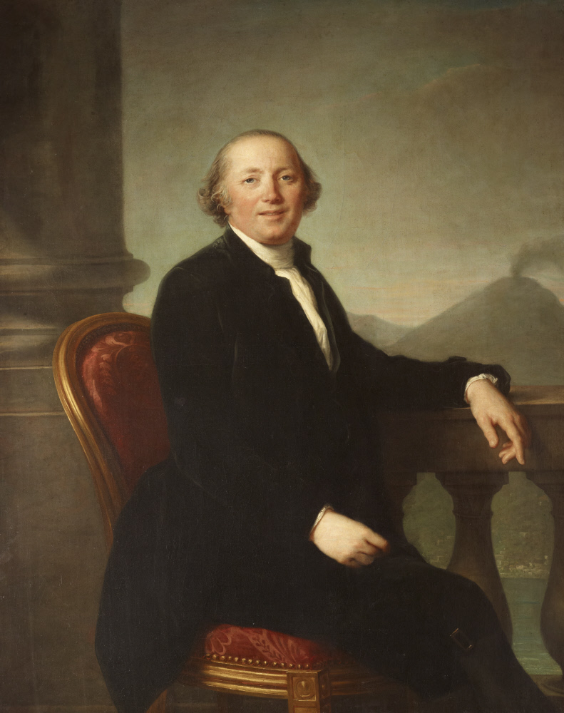 Frederick Hervey, 4th Earl of Bristol, National Trust Inventory Number 851764; painted in Naples, located in Ickworth, Suffolk